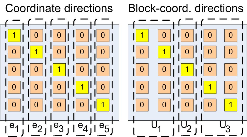 Block structure, grouping coordinate directions into Block coordinate directions